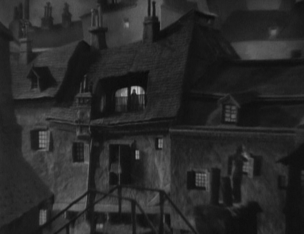 Svengali, set decoration (cropped screenshot)